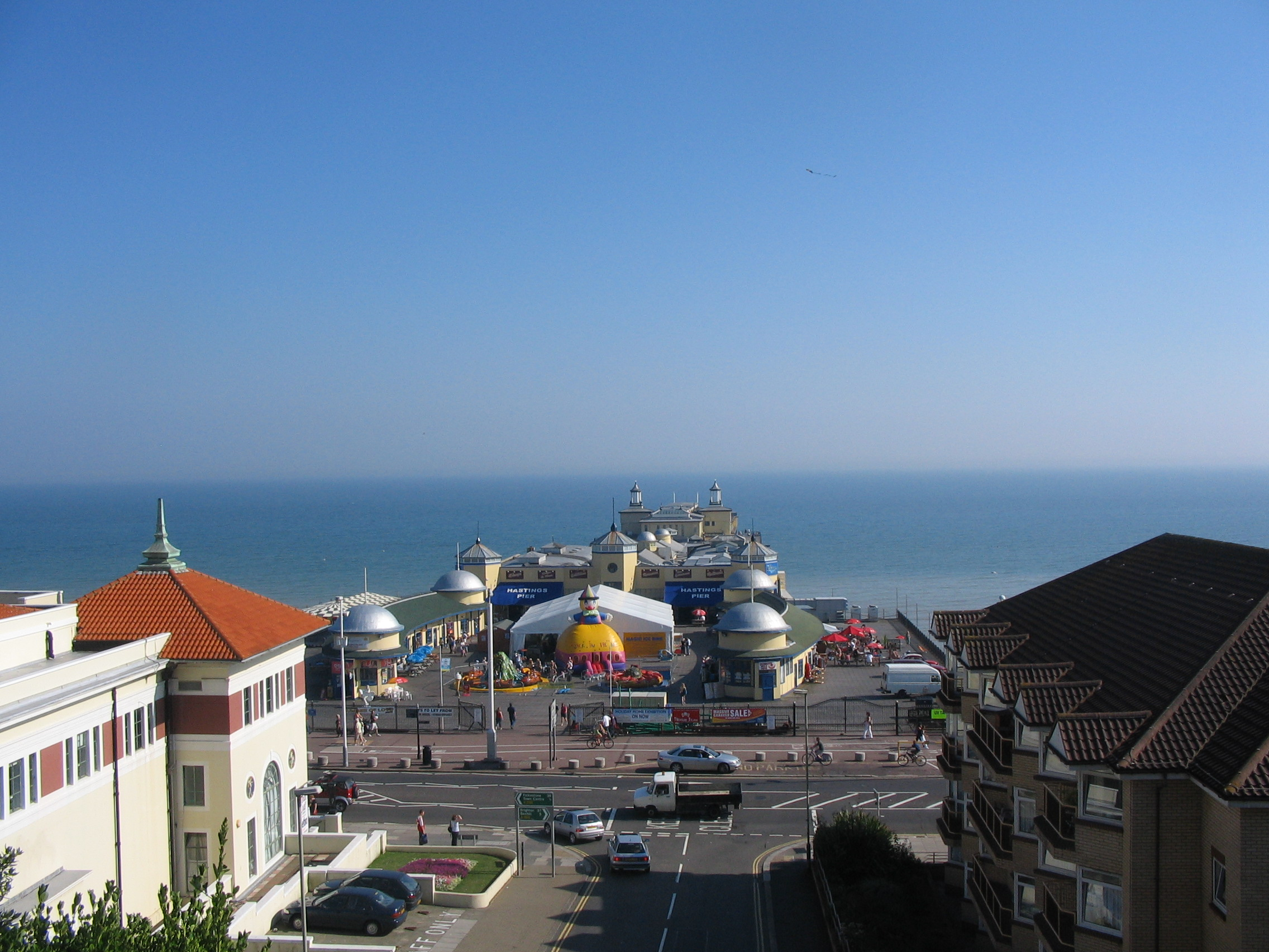 The pier in Hastings, United Kingdom of Great Britain and Northern Ireland Photo taken on August 17, 2005. Photo by User:Jarlhelm